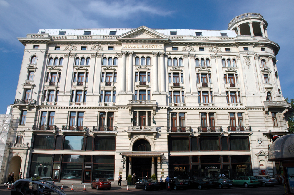 Hotel Bristol in Warszawa. Photograph by Henryk Kotowski in July 2006.